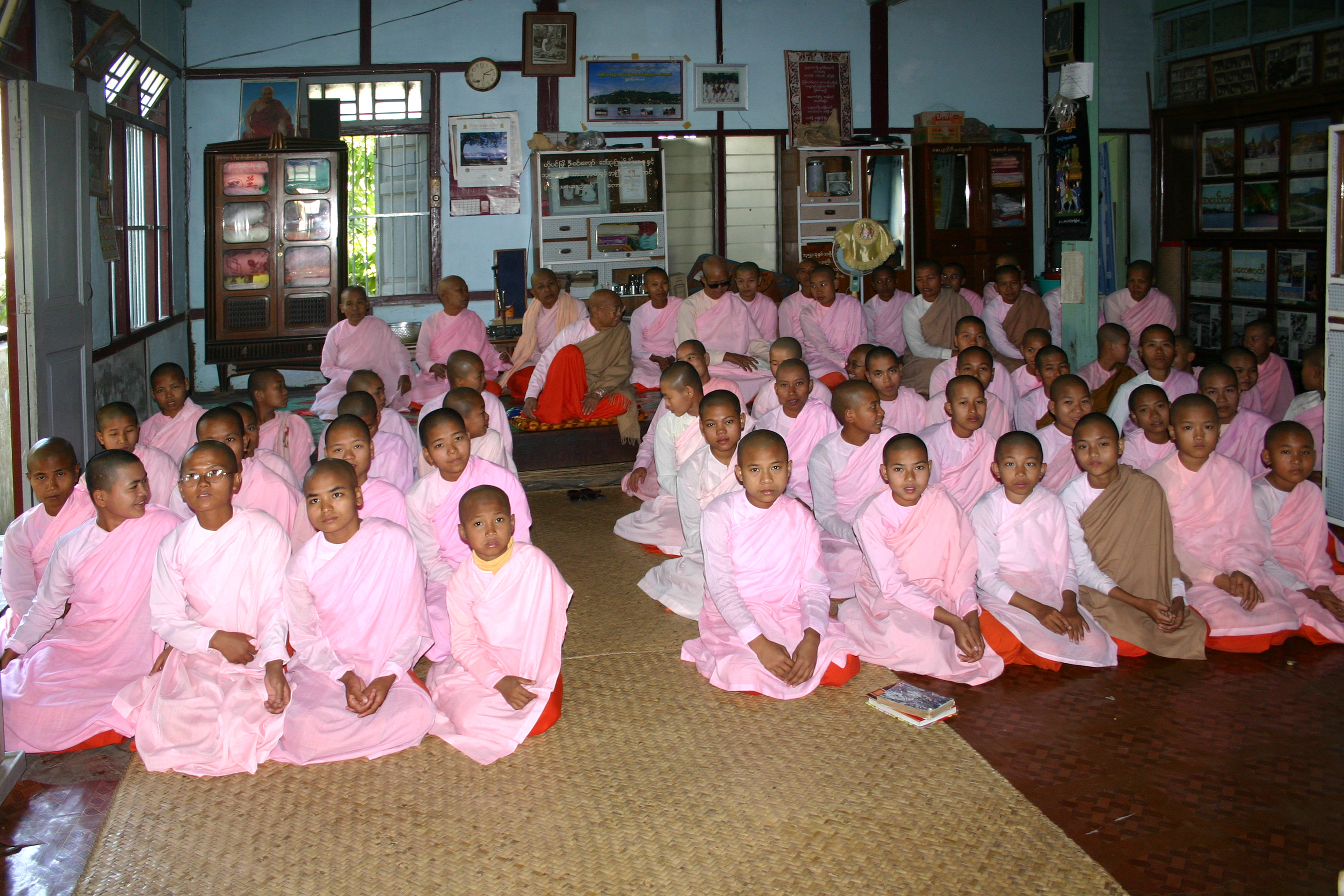 Zhaya Theingyi nunnery, Sagaing, Myanmar. Nuns choir.